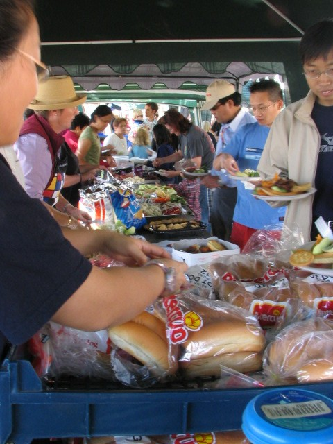 Dickens Community Multicultural festival serving food from the community Vancouver, Canada, 2005 food picture taken by Martin Mullan, September 2005